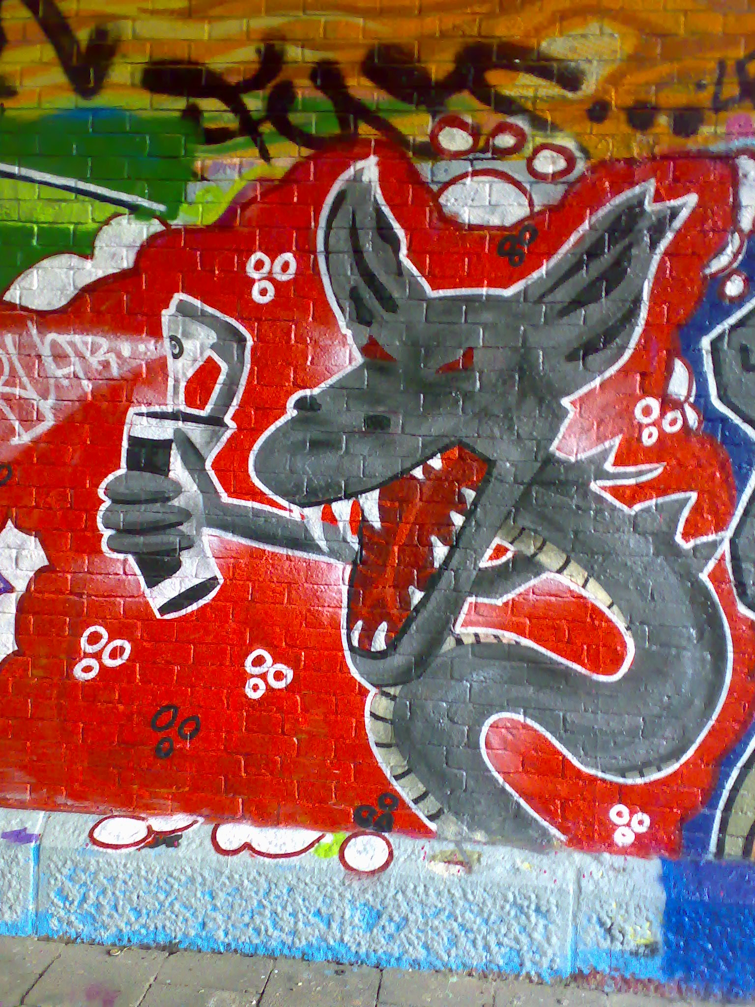 Graffiti peace of a snake placing graffity, under the Nieuwe Roversbridge in Katwijk, where graffiti is legal. This Graffiti peace is made by Buar. A local famous graffiti artist.